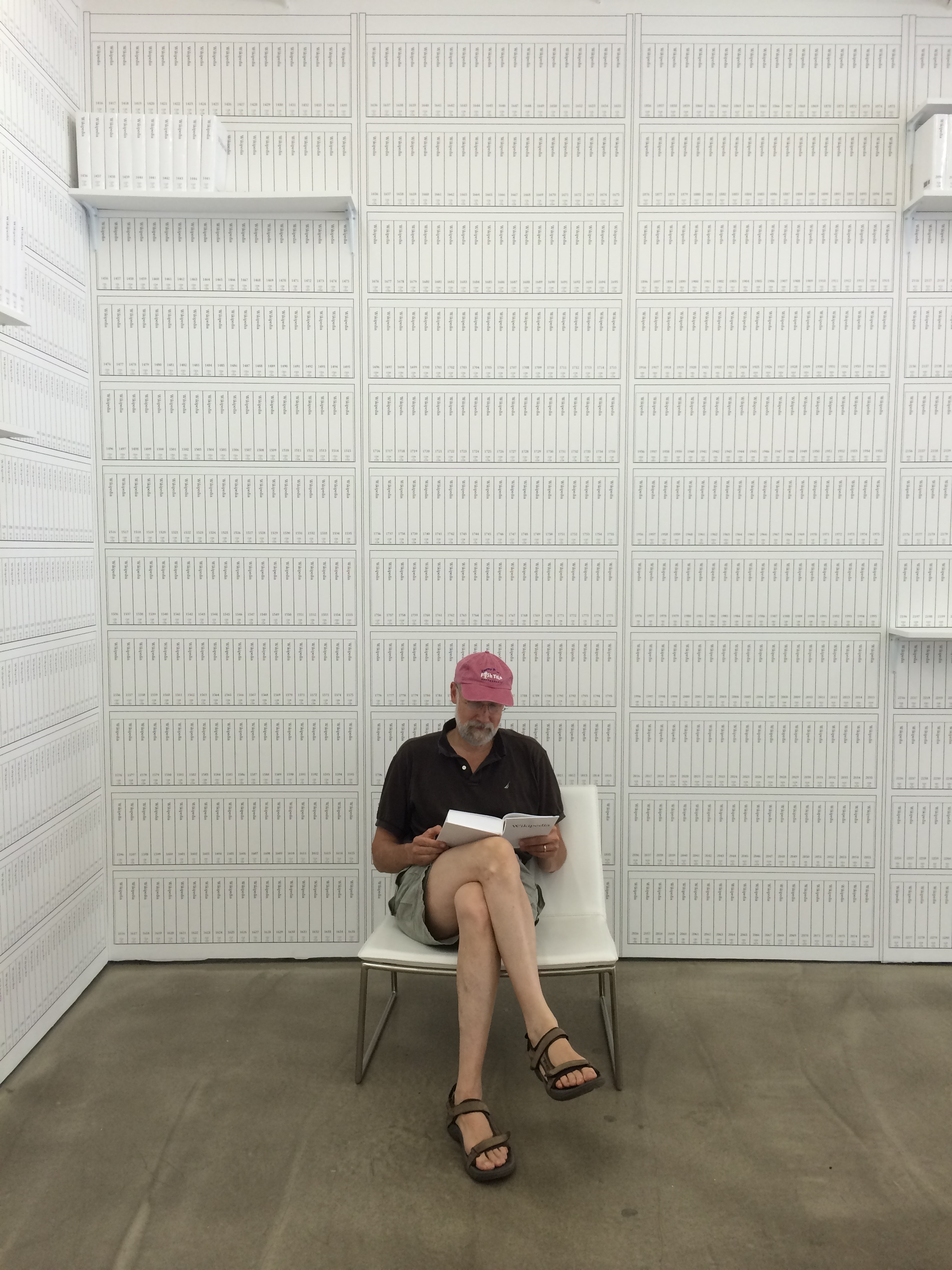 Reading Wikipedia